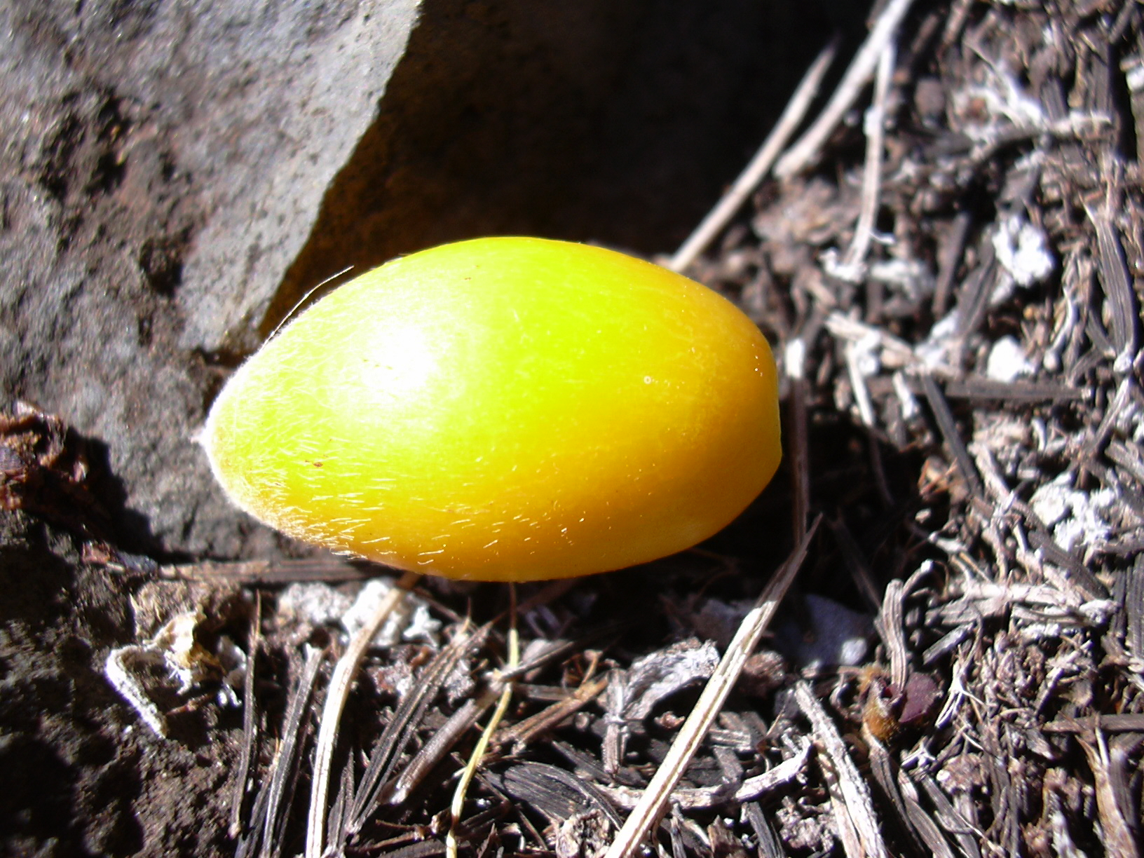 Diospyros sandwicensis (fruit). Location: Maui, Puu o Kali